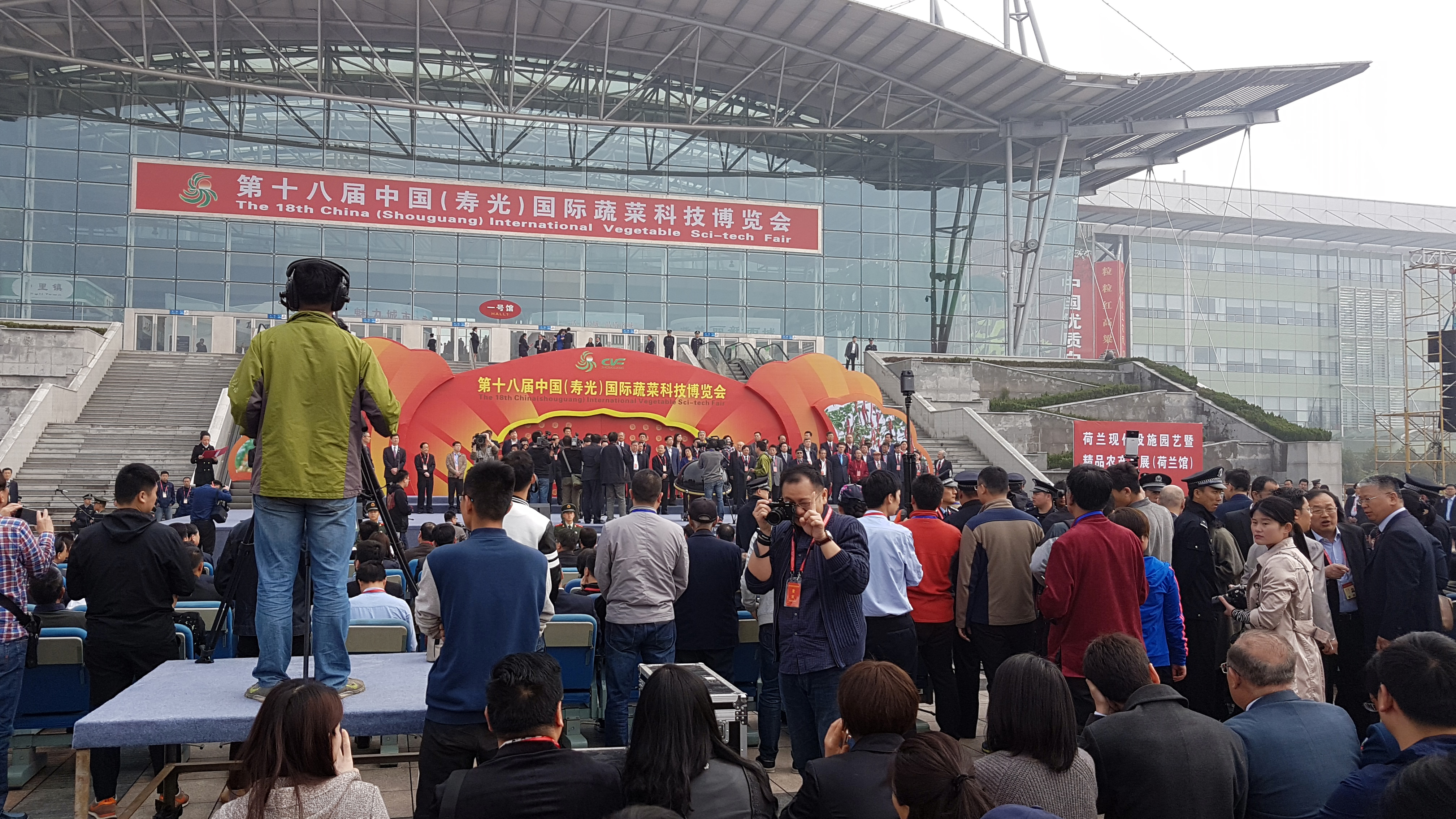 18th China (Shouguang) International Vegetable Sci-tech Fair (2017)